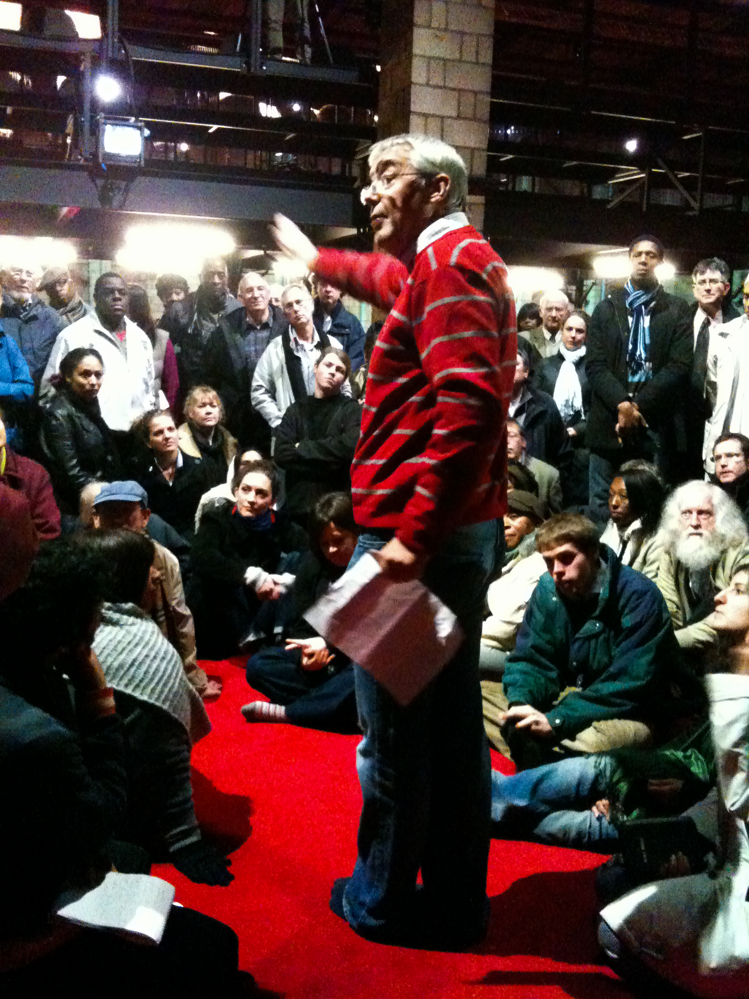 Director Graham Vick runs through his notes with the Birmingham Opera Company chorus.